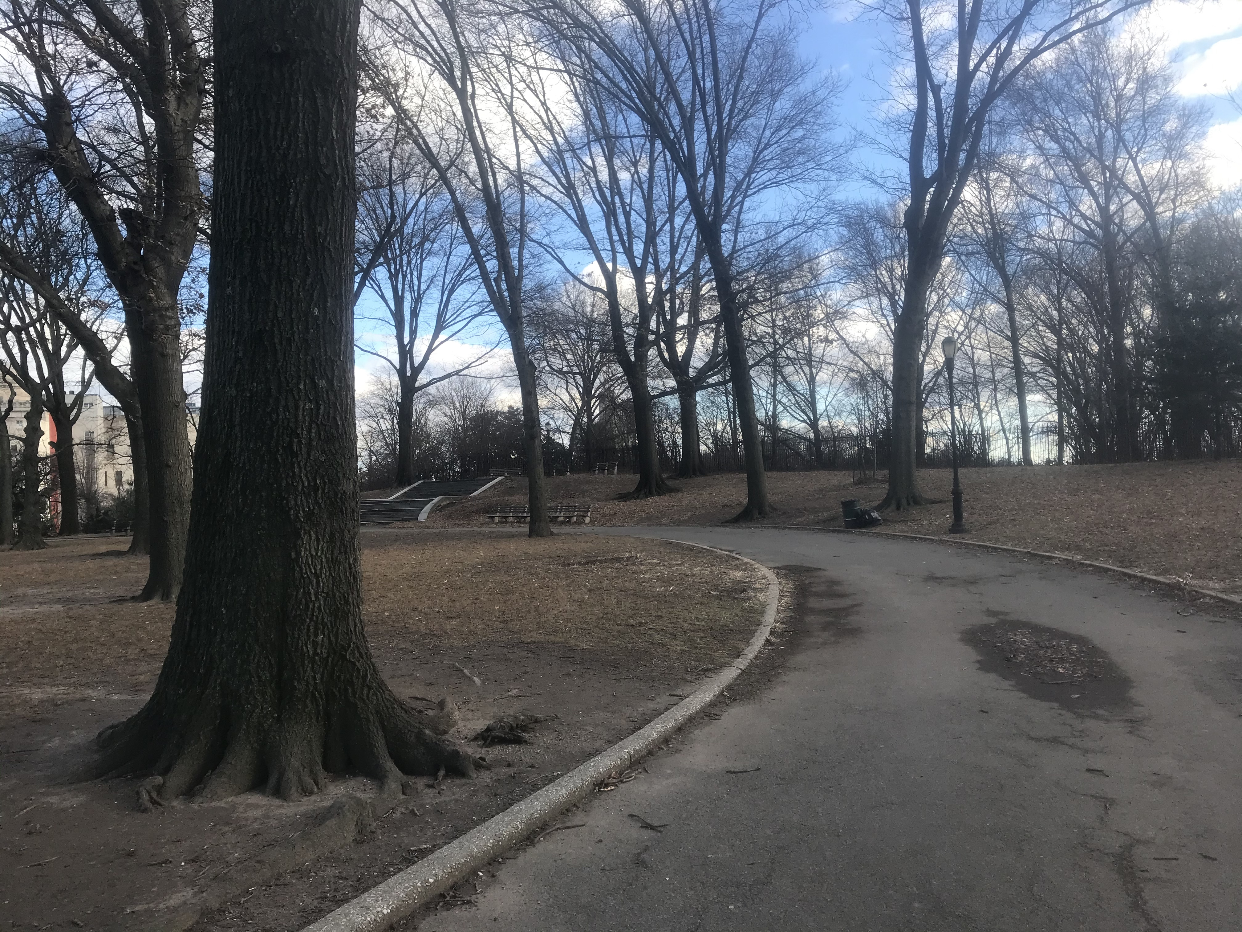 The oak trees stand tall in winter at Mount Prospect Park, Brooklyn, NY - January 5th 2020